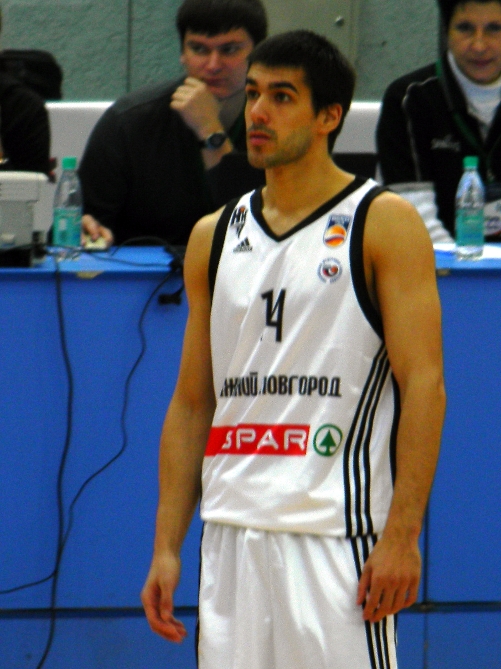 Nemanja Protić, serbian basketball player from BC Nizhny Novgorod in the game against Spartak Saint-Petersburg on March 19th, 2011